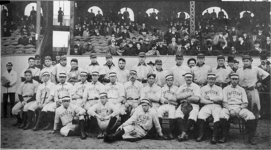 Accession No.: 06_06_000032 Title: Boston Americans and Pittsburgh Pirates, Huntington Avenue Grounds, 1903 World Series Caption: Boston and Pittsburg [sic], Oct. 13th 1903 Creator: Chickering, Elmer Date: 1903 Format: photograph Description: The Pirates: (Top, left to right)- second baseman Claude Ritchey, catcher Harry Smith, catcher Eddie Phelps, outfielder Ginger Beaumont, pitcher Deacon Phillippe, pitcher Sam Leever, pitcher Bucky Veil, pitcher Gus Thompson, outfielder Tommy Leach, outfielder Jimmy Sebring, pitcher Brickyard Kennedy, catcher Fred Carisch and shortstop Honus Wagner. Middle: Pirate manager and outfielder Fred Clarke. Boston players: third baseman-manager Jimmie Collins, outfielder Chick Stahl, pitcher Bill Dineen, outfielder Buck Freeman, first baseman Candy LaChance, outfielder Patsy Dougherty, pitcher George Winter, catcher Duke Farrell, outfielder Jack O'Brien, pitcher Long Tom Hughes. Bottom: shortstop Fred Parent, catcher Lou Criger, second baseman Hobe Ferris, BPL Collection: McGreevey Collection BPL Department: Print Subject: Baseball--History World Series (Baseball) (1903) Boston Red Sox (Baseball team) Pittsburgh Pirates (Baseball team) Sports spectators